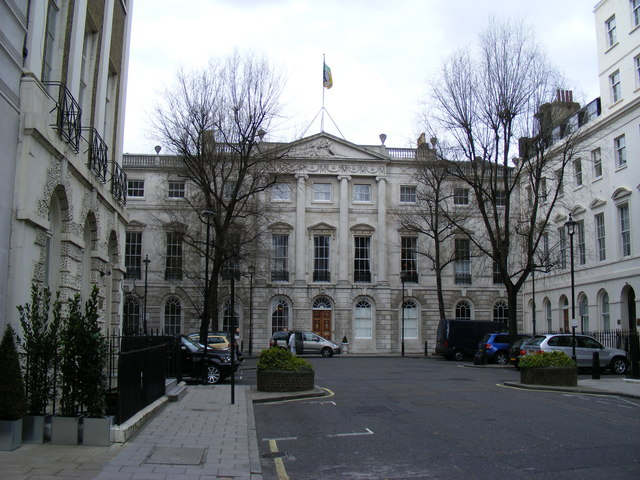 Stratford House, Stratford Place, London, has been the Oriental Club since 1962. The building featured as Bertram's Hotel in the Agatha Christie's Marple episode "At Bertram's Hotel" (2007) and as Beachams Hotel in "The Mirror Crack'd from Side to Side" (2010).